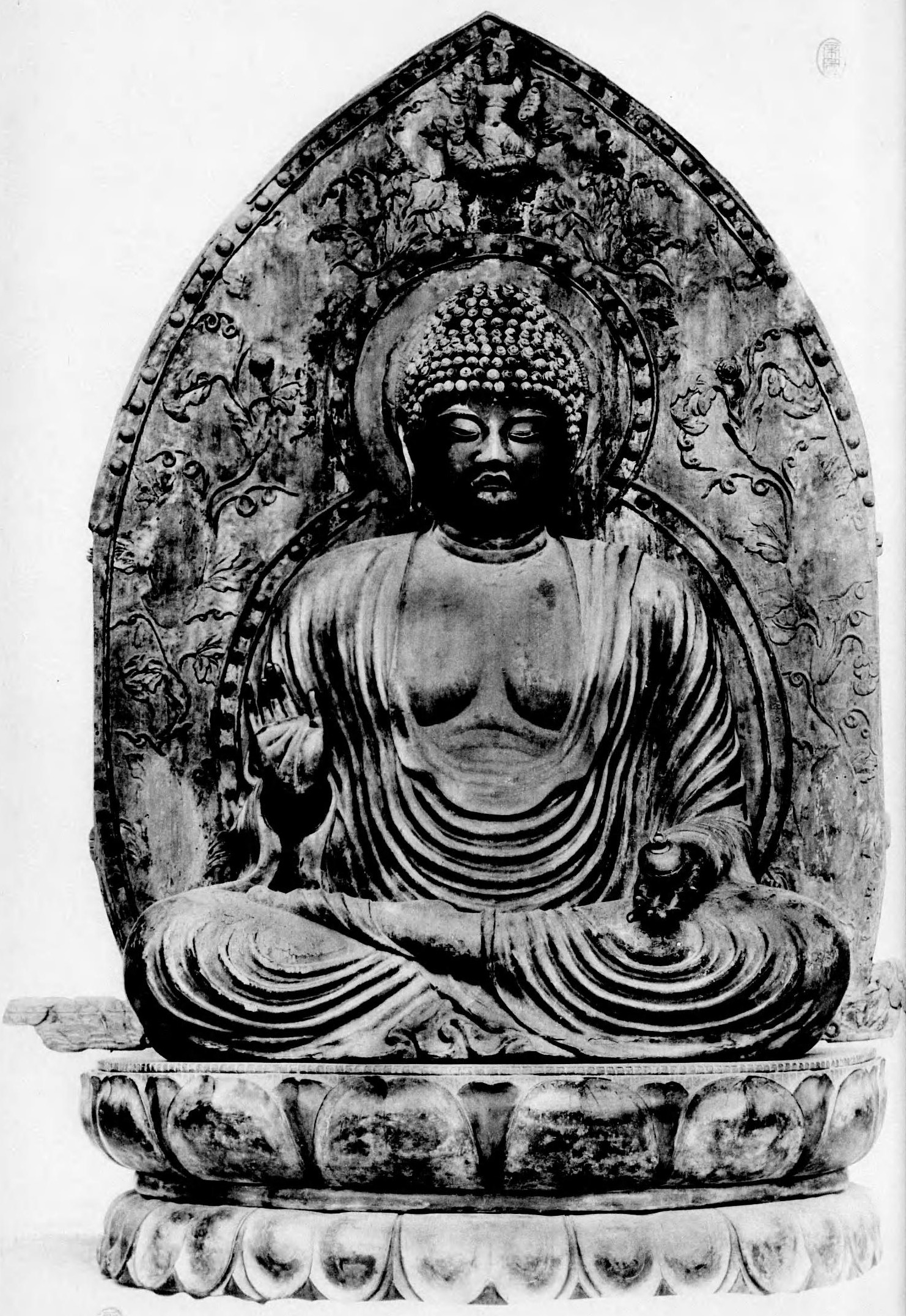 A statue of yakushi nyorai at Shojo-ji, Yukawa, Fukushima. A national treasure of Japan.